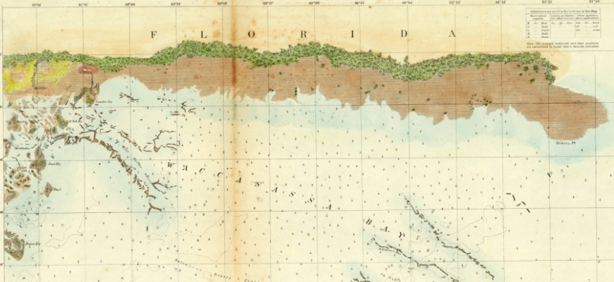 Preliminary Chart of Waccasassa Bay from the Cedar Keys to the mouth of the Waccasassa River